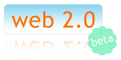 Example of elements present the currently popular 'web 2.0'-style: gradients, rounded corners, large fonts, hatch backgrounds, a 'beta' supermarket sticker and the 'wet floor effect' invented by Apple.